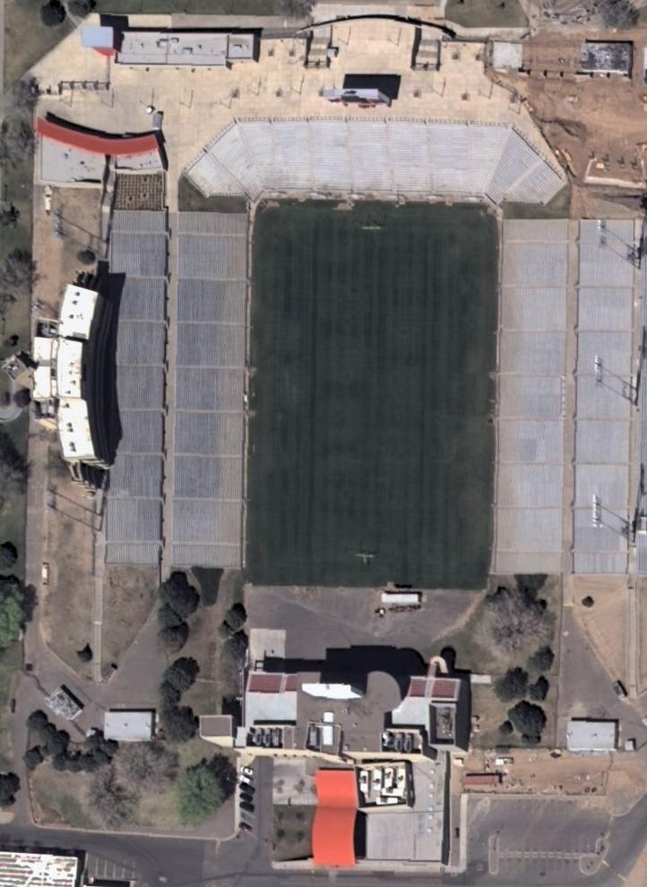 New Mexico University in Albuquerque, New Mexico satellite image taken March 2004.